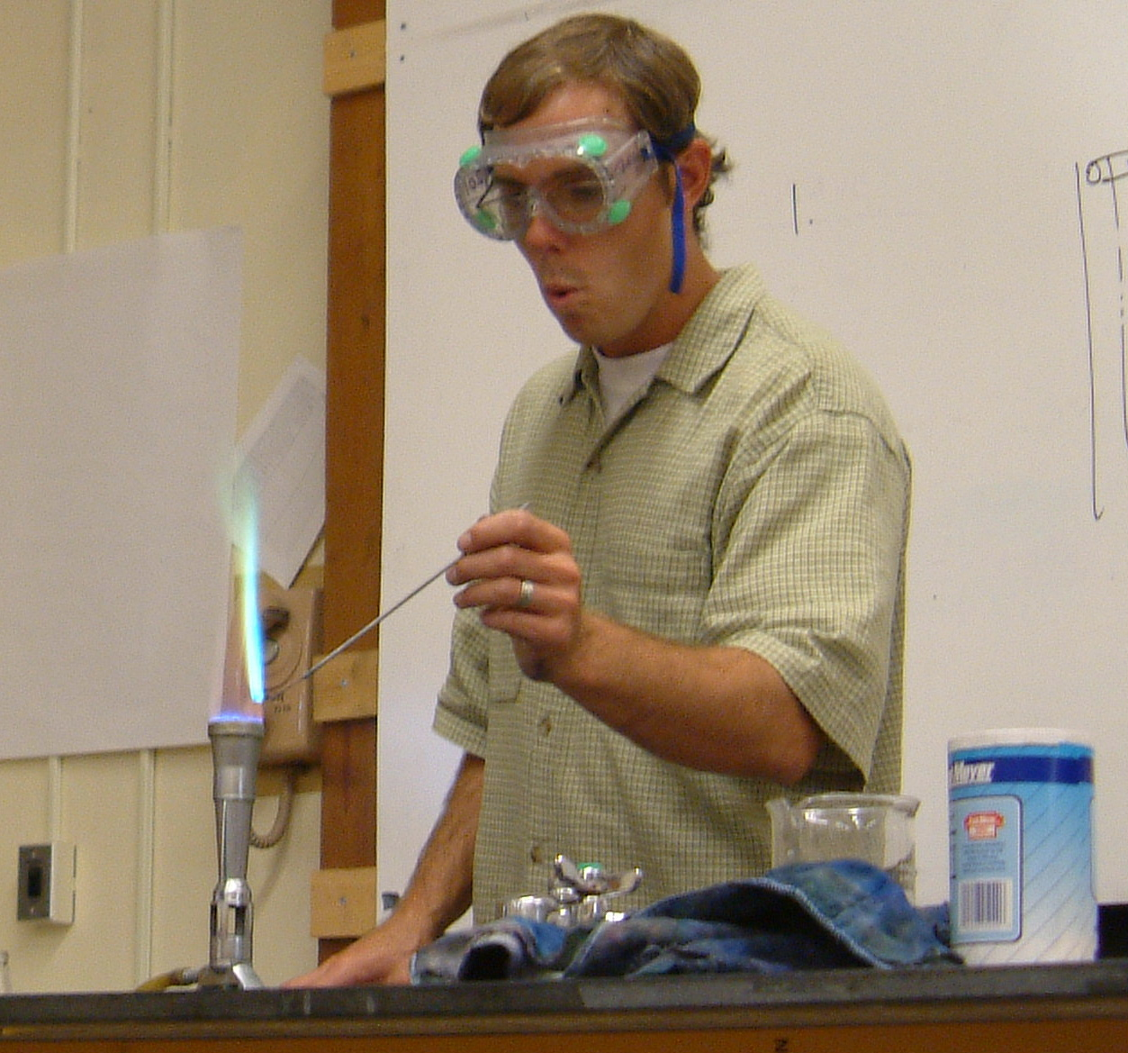 This is a high school chemistry teacher demonstrating a flame test. Picture taken by student Connor Lee. From Image:Flame test.JPG, uploaded by User:WAvegetarian on 31 May 2005.